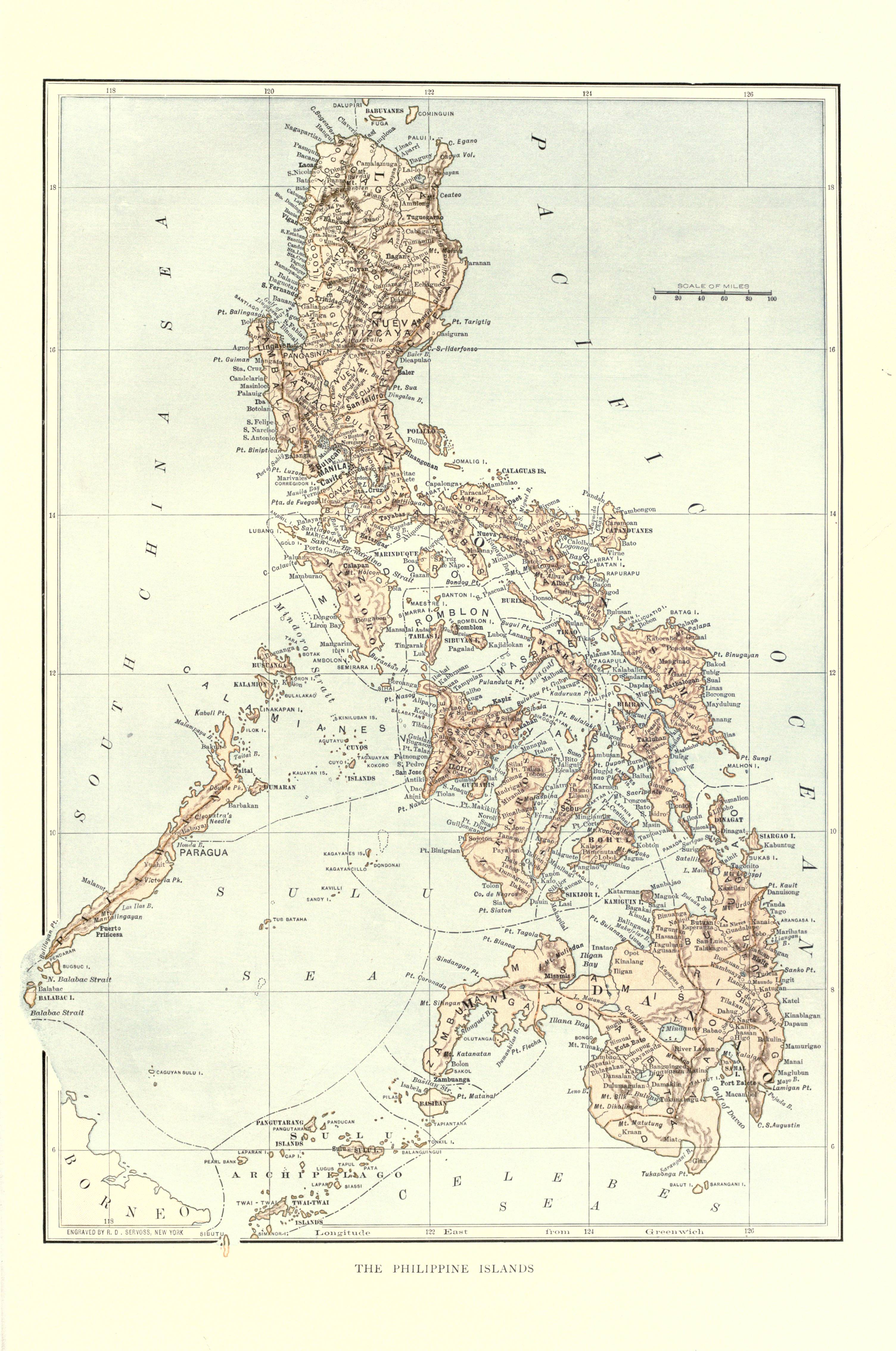 A map of the Philippines from Harper's Pictorial History of the War with Spain, Vol. II, published by Harper and Brothers in 1899.